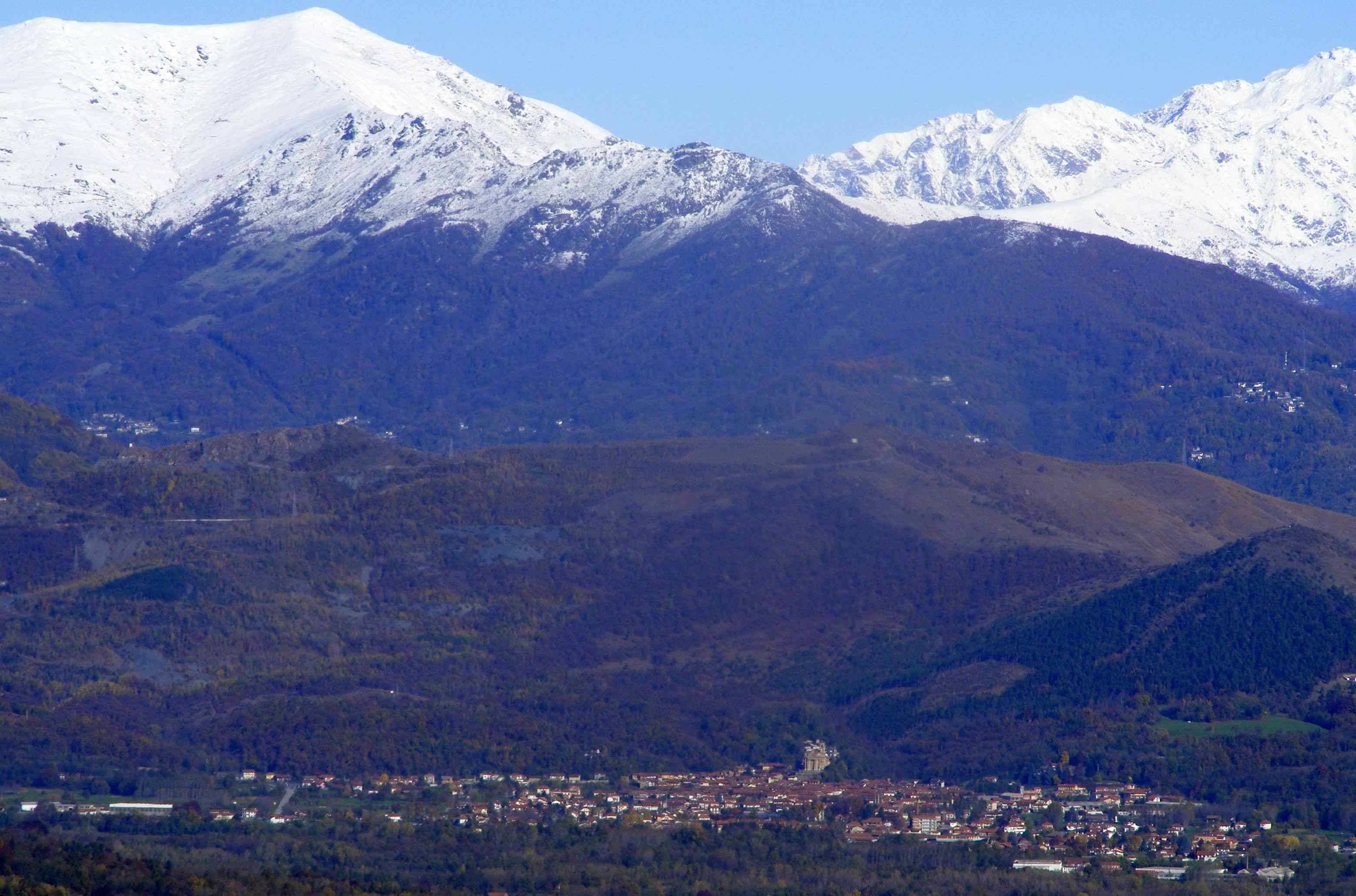 Balangero (TO, Italy) from La Cassa hills; on the background mounts Angiolino, Vaccarezza and Pian di Rossa